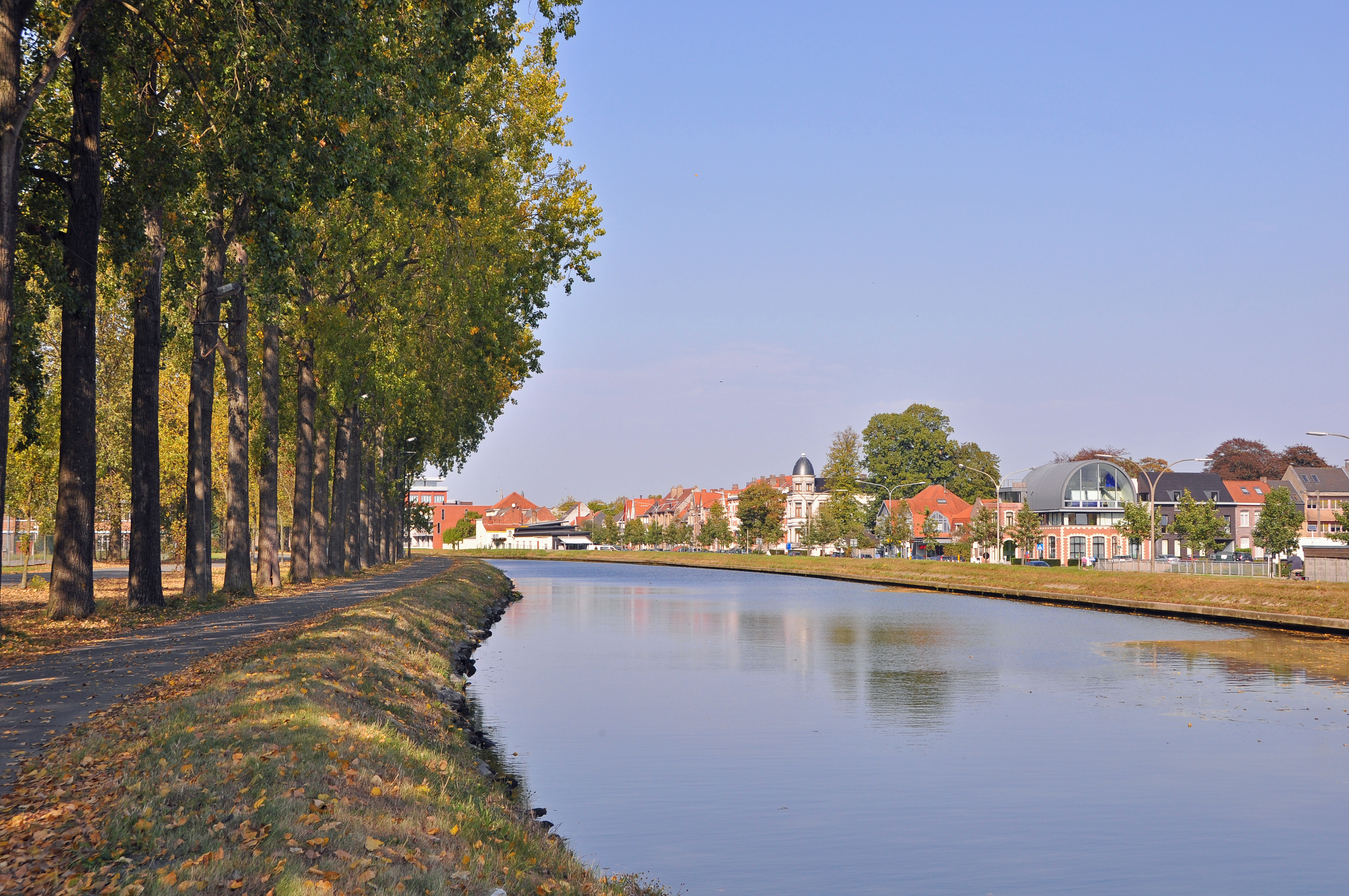 Bruges (Belgium): Ghent Canal at Steenbrugge